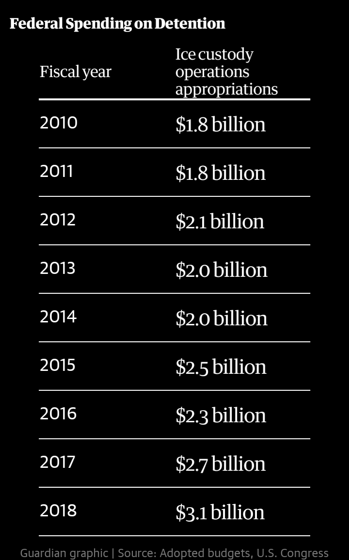 Graph of Federal Spending on U.S. Detention centres from the years of 2010-2018